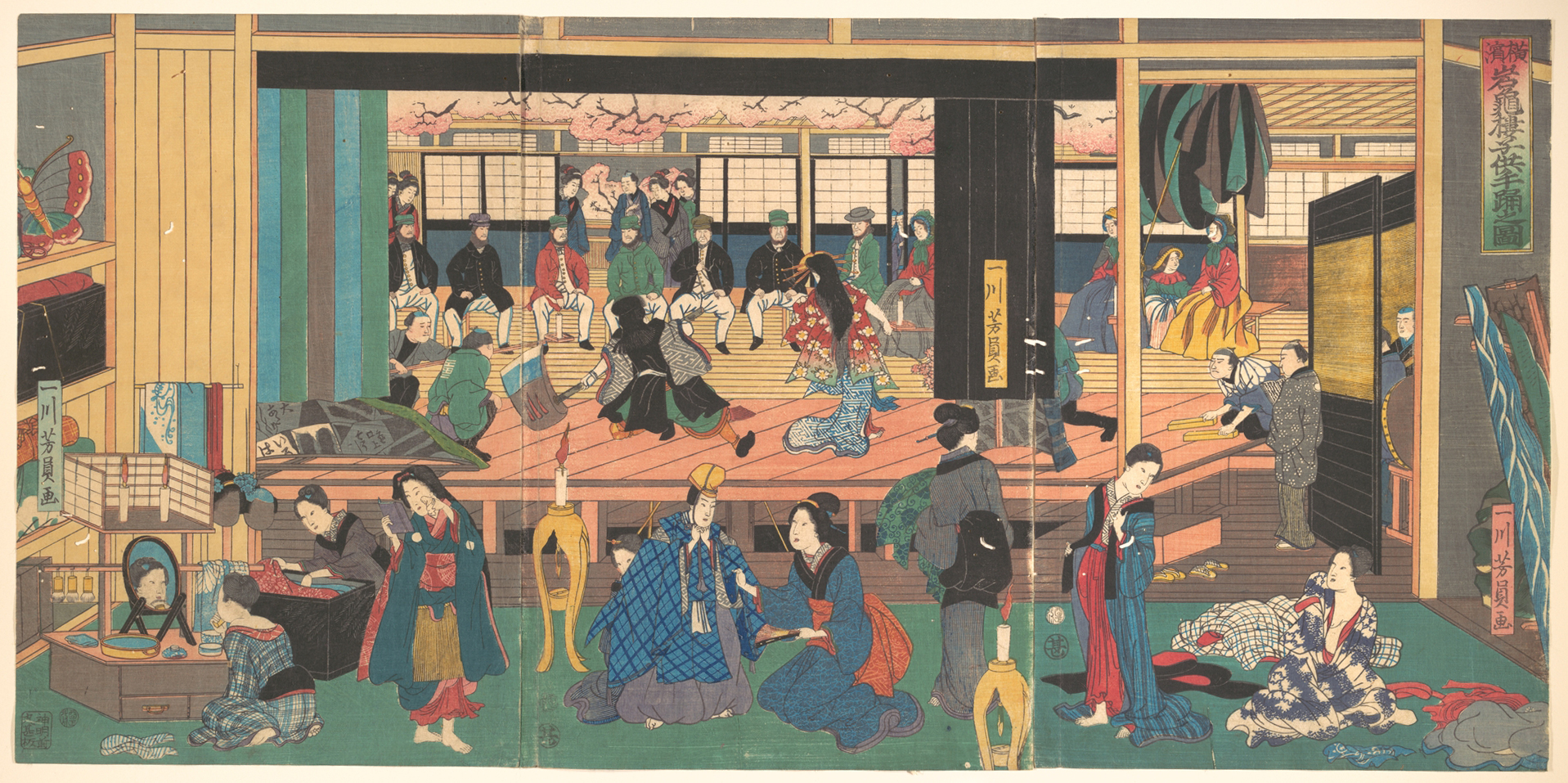 Foreigners Enjoying Children's Kabuki at the Gankirō Tea House